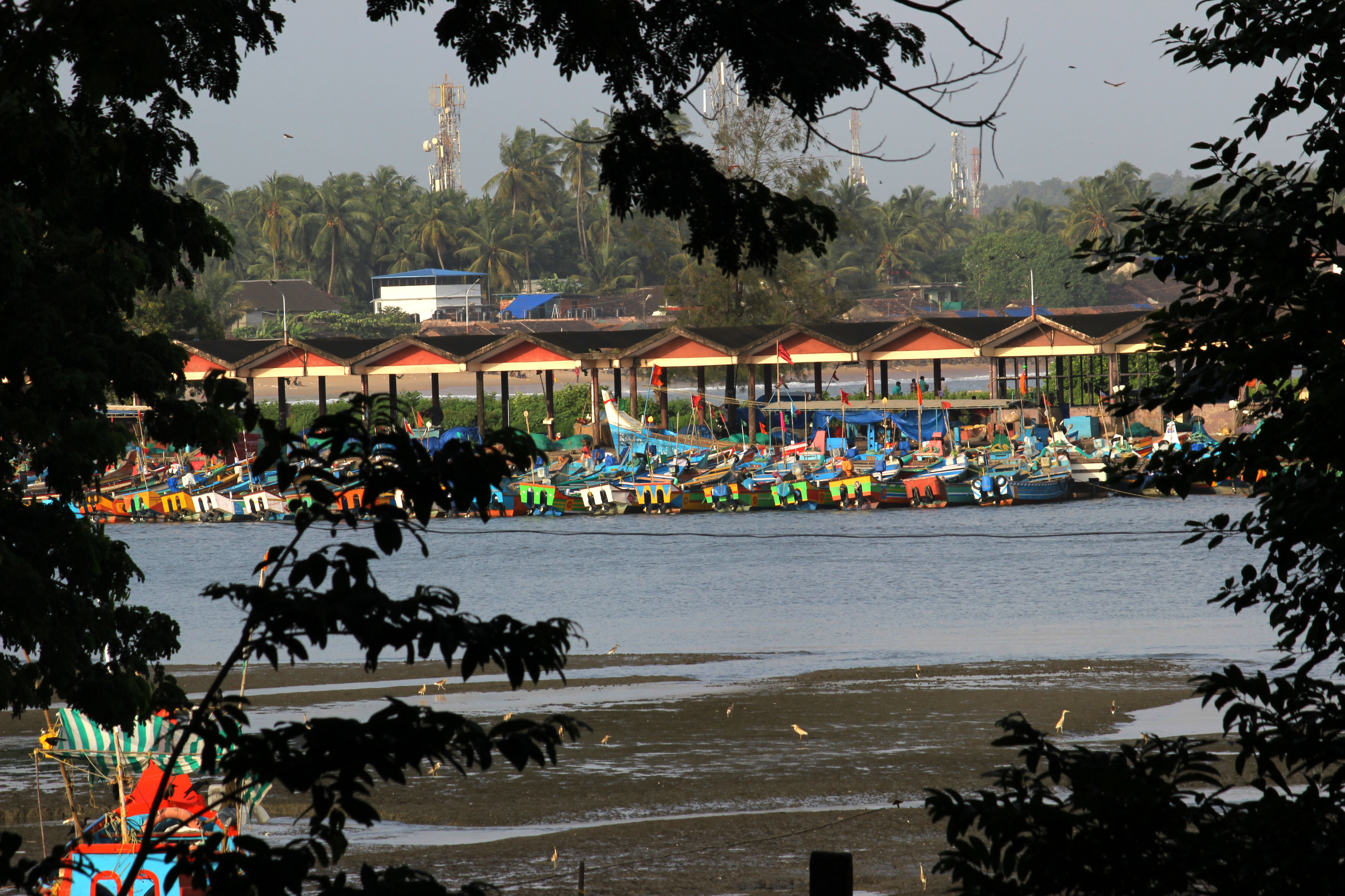 Mappila Bay (or Moppila Bay) is a natural harbor situated in Ayikkara Kannur town, Kerala state of South India. On one side of the bay is Fort St. Angelo, built by the Portuguese in the 15th century and the other side is the Arakkal Palace.